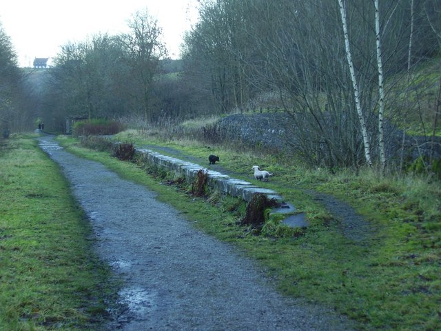 Monsal Dale station on the Monsal trail, near to Monsal Head, Derbyshire, Great Britain. Monsal Dale station (disused), this station was on the former mainline from Ambergate to Buxton. The station is one of the long term aims for peak rail.